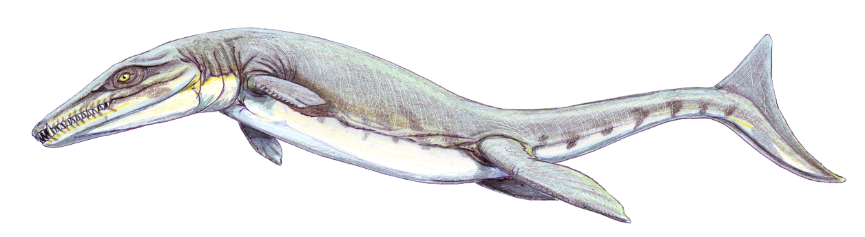 Life reconstruction showing the maximum body length for Geosaurus giganteus.